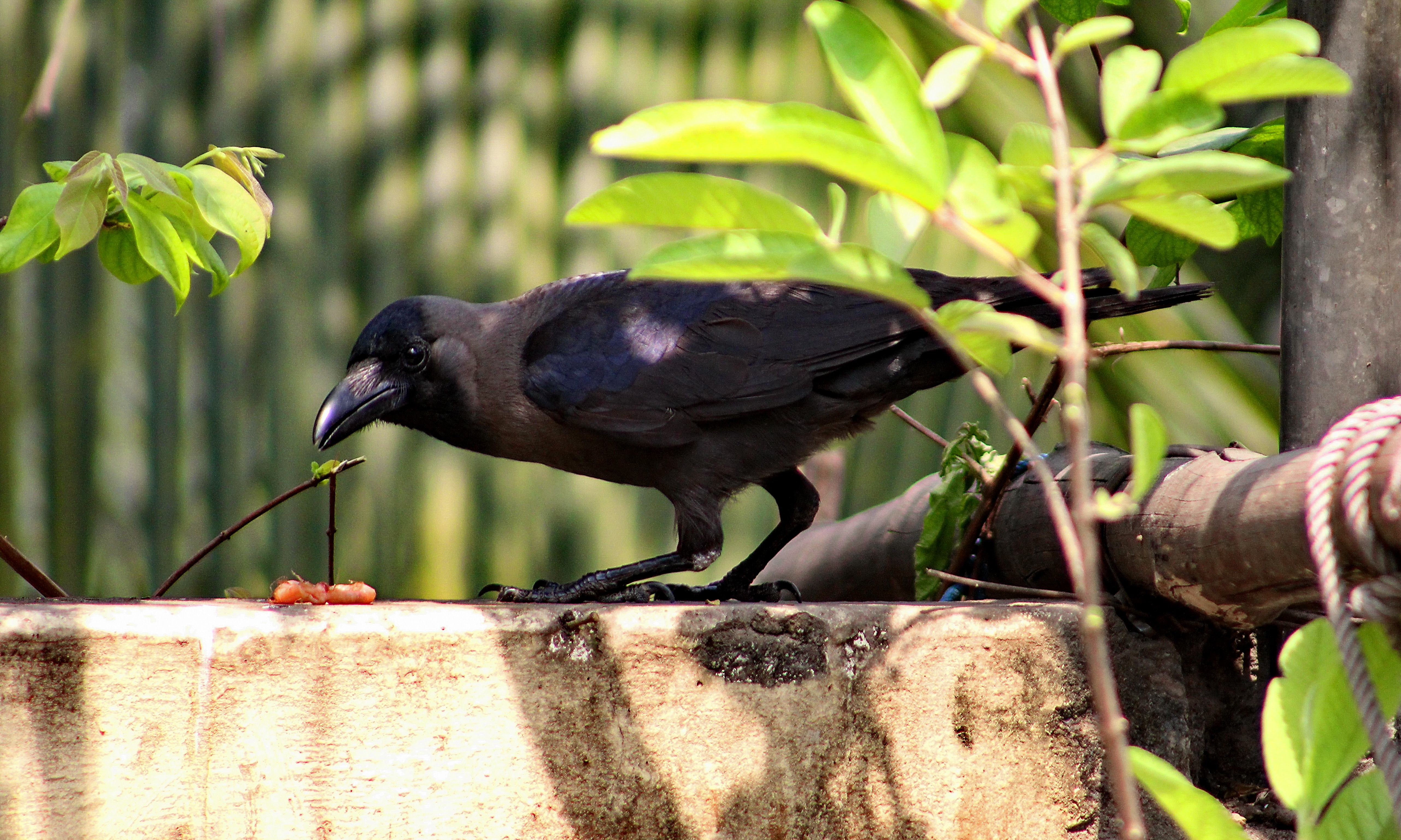 A house crow can be seen resting in the shadows on the rooftop of a residential building with a piece of what appears to be a slaughterhouse refuse that it collected.